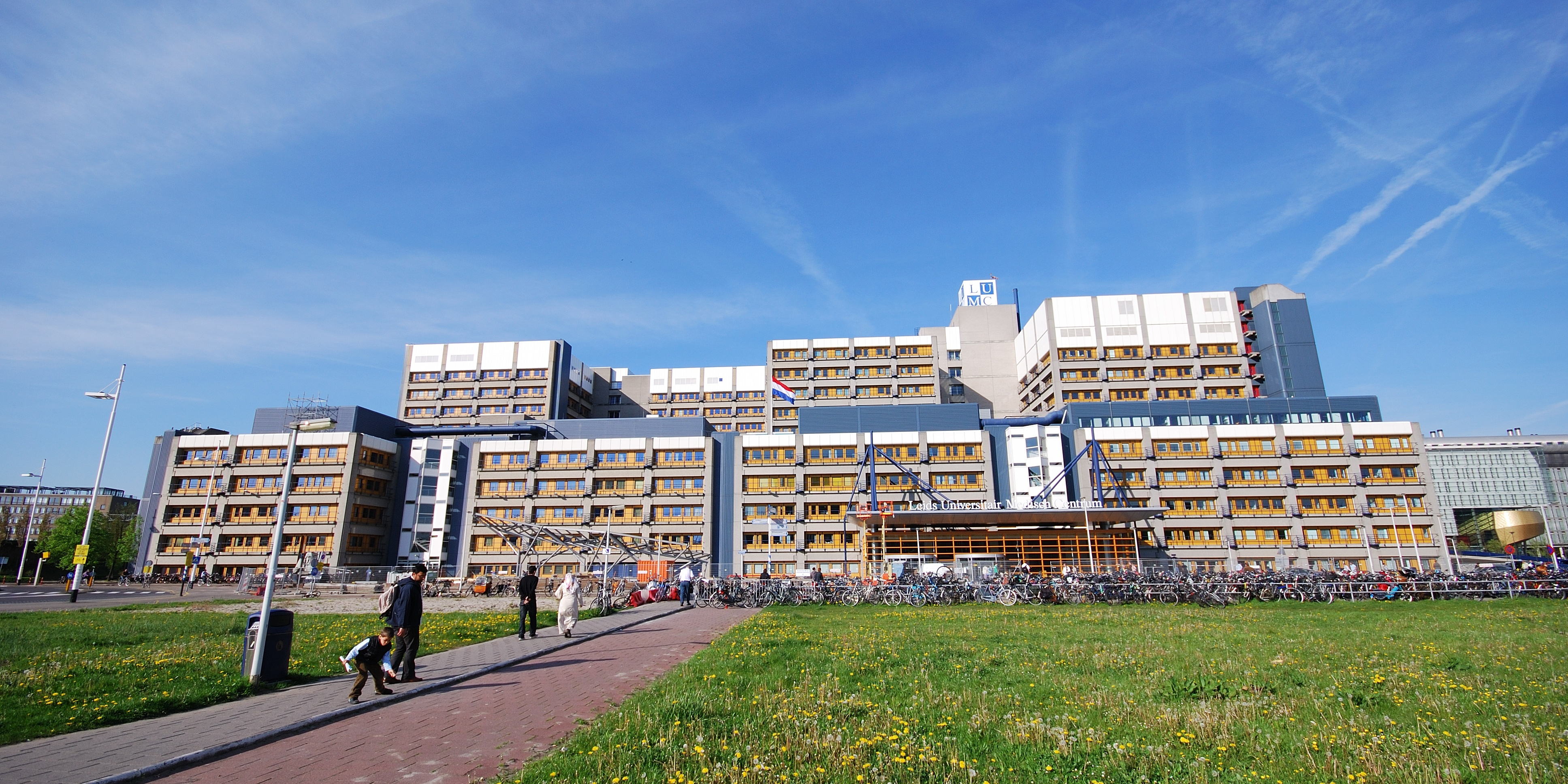 The Leids Universitair Medisch Centrum (LUMC) viewed from the front. Construction visible in the picture is to construct a new underground bicycle garage. This is a 2:1 crop of the original picture. The aspect ratio is therefore correct, alhtough some perspective (rectilinear) distortion is present due to the use of a wide-angle lens.